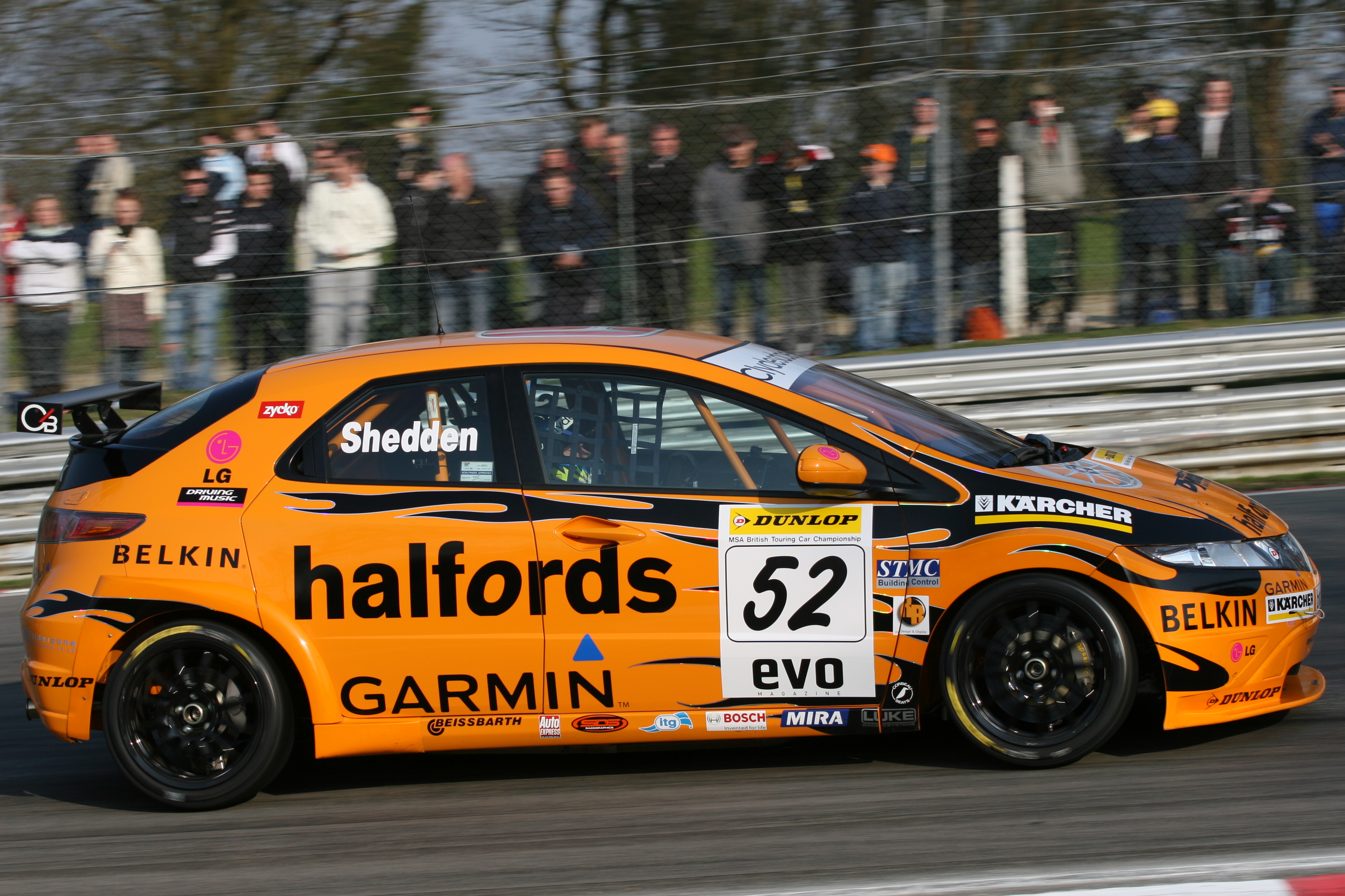 Gordon Shedden driving Honda Civic at Brands Hatch (2007 BTCC season).